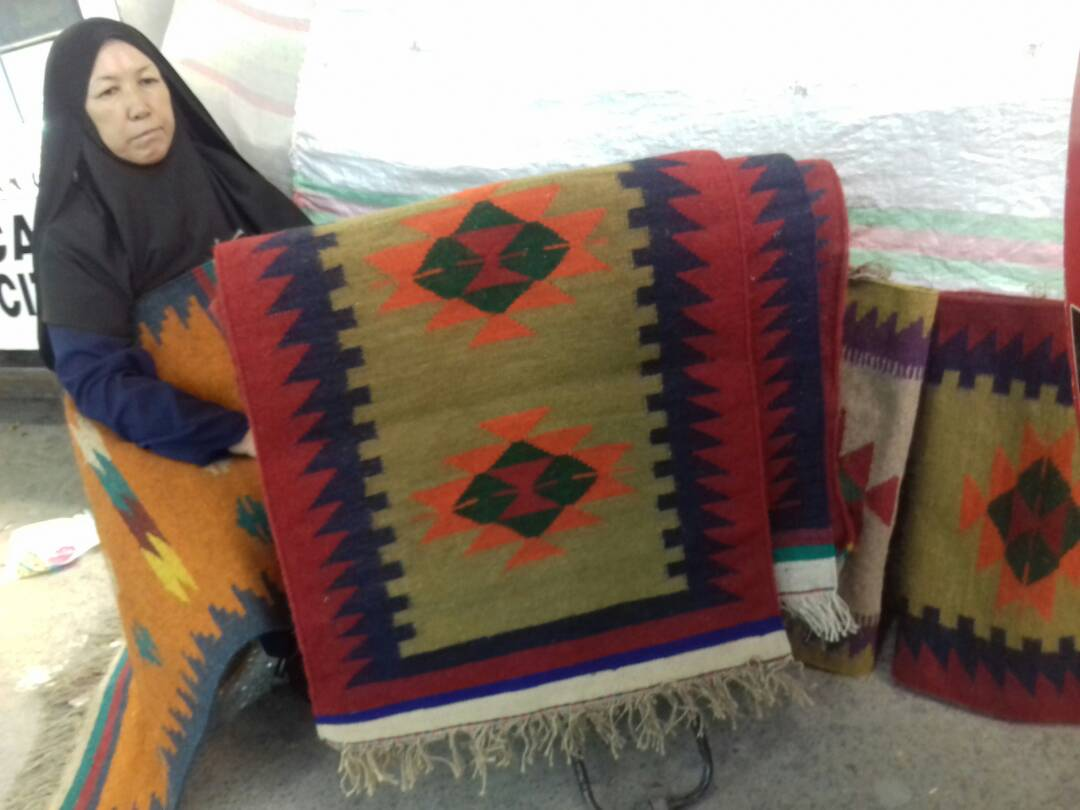 Kilim of Afghanistan